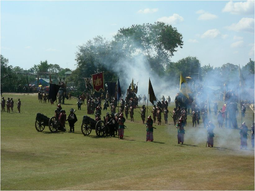 Thailand, Surin, Elephant, Round up